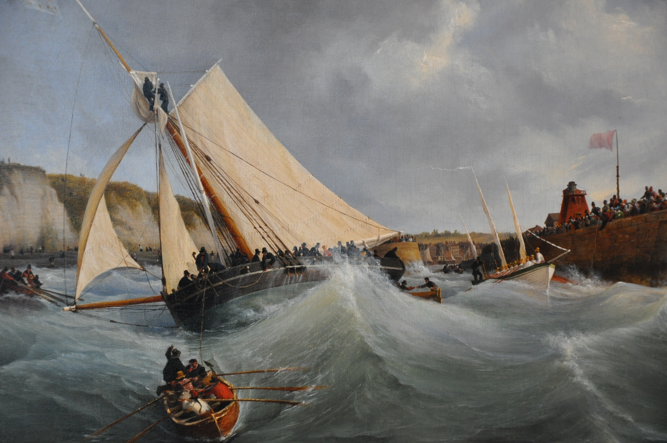 The government cutter Furet in the service of Her Royal Highness Madame la Duchesse de Berry leaving the port of Dieppe (Normandy, France). Quote: even in exile. Dieppois affections turn to veneration when they see the Duchess of Berry defying the elements. The marine painter Ambroise Louis Garneray immortalizes this stormy day when Le Furet, a cutter intended for the particular service of the duchess, is likely to run aground, by a rough sea, at the exit of the piers. On board, the Duchess galvanizes the crew and works to support her terrorized company ladies. A raging sea, a boat almost in distress and this frail young woman, defying the elements. :Unquote